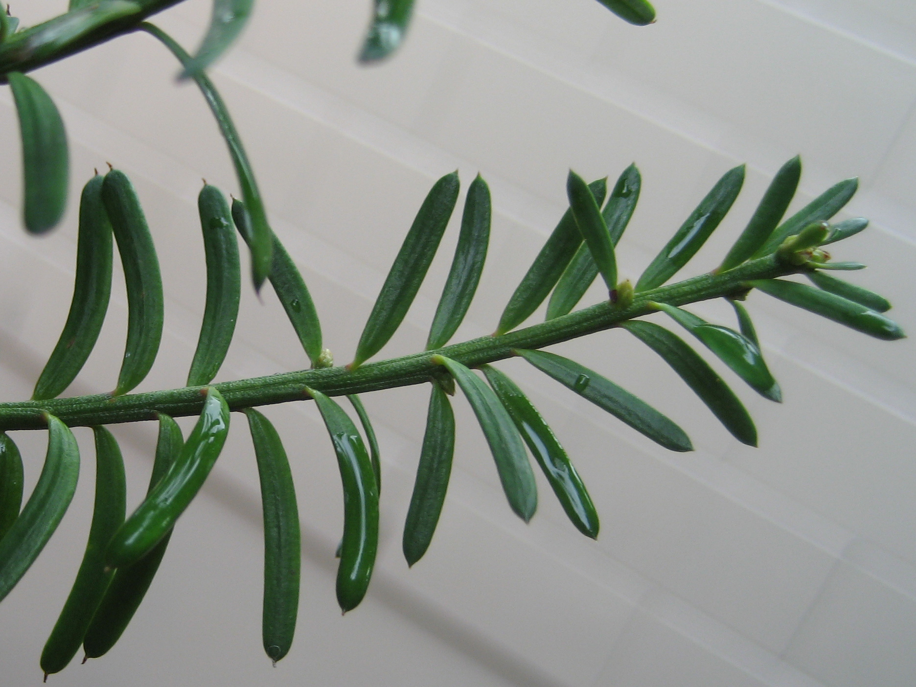 adult foliage of a Mataī, Prumnopitys taxifolia, Podocarpaceae. Endemic to New Zealand. The adult leaves are dark green, somewhat glaucous above, glaucous below, 10-15 x 1-2 mm.